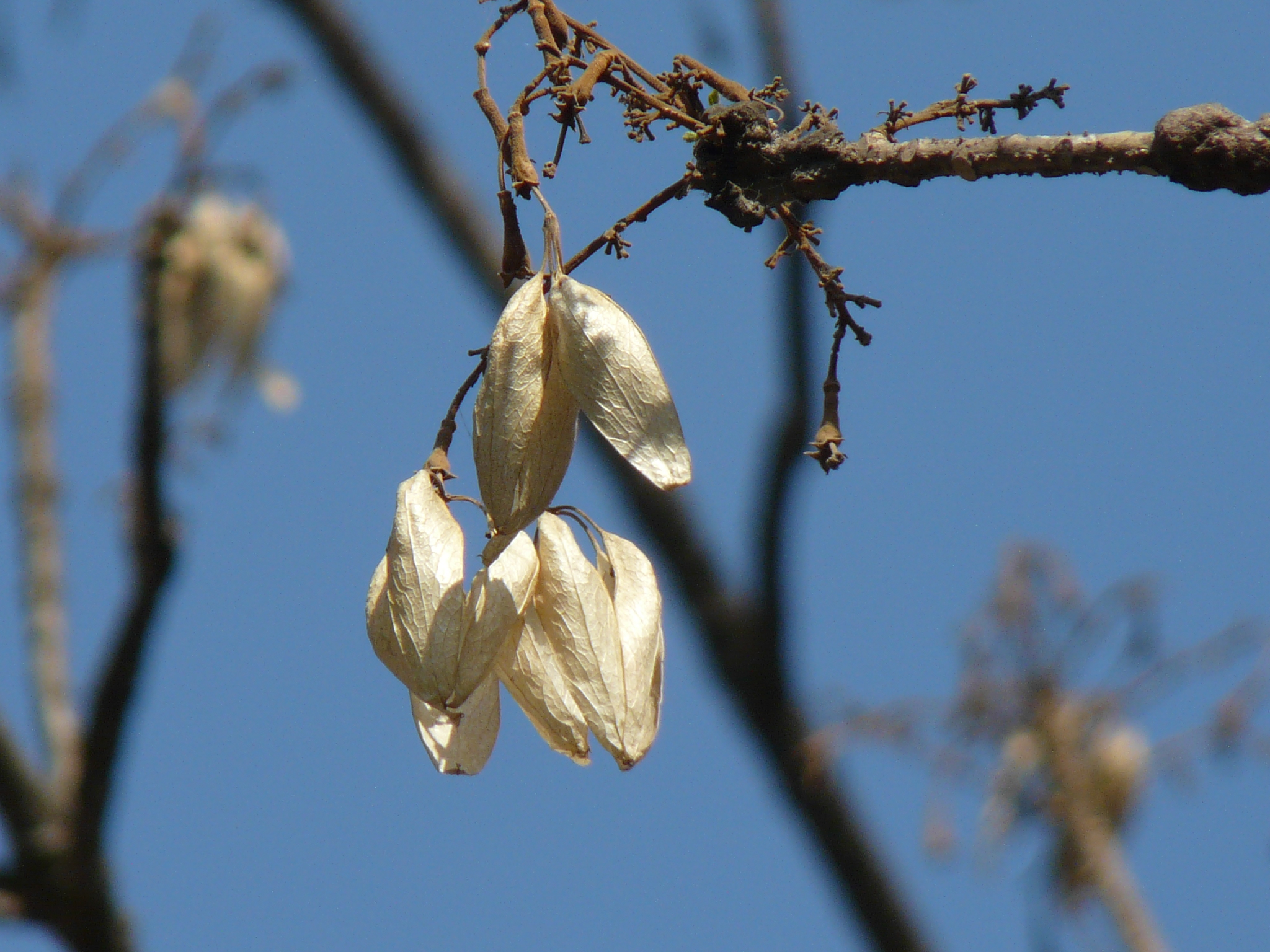 Sterculiaceae (Cacao family) » Firmiana colorata fer-mee-AY-nuh -- named for Joseph von Firmian, Imperial Governor of Lombardy kol-oh-RAY-tuh or kol-oh-RAH-tuh -- meaning, colored commonly known as: bonfire tree, buttressed parasol tree, colored sterculia, Indian almond, scarlet sterculia • Assamese: jari-udal • Bengali: মূলা mula • Hindi: bodula, samari, walena • Kannada: ಬಿಳಿಸುಲಿಗೆ bilisulige • Konkani, in Goa: खोलथे kholthe • Malayalam: മലബരത്തി malabaraththi • Marathi: कौशी kaushi • Miri: kath-udal • Tamil: மலப்பருத்தி malapparutti Native to: India, Myanmar, Thailand, Sri Lanka References: Flowers of India • Top Tropicals • Dave's Garden